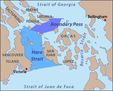 This is a locator map of Haro Strait and Boundary Pass.